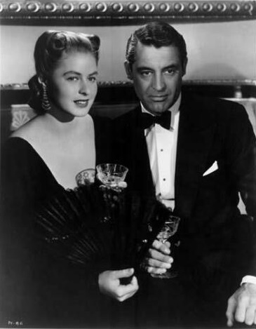 Still of Ingrid Bergman and Cary Grant in American spy film noir Notorious (1946). See also film still. No copyright notice.